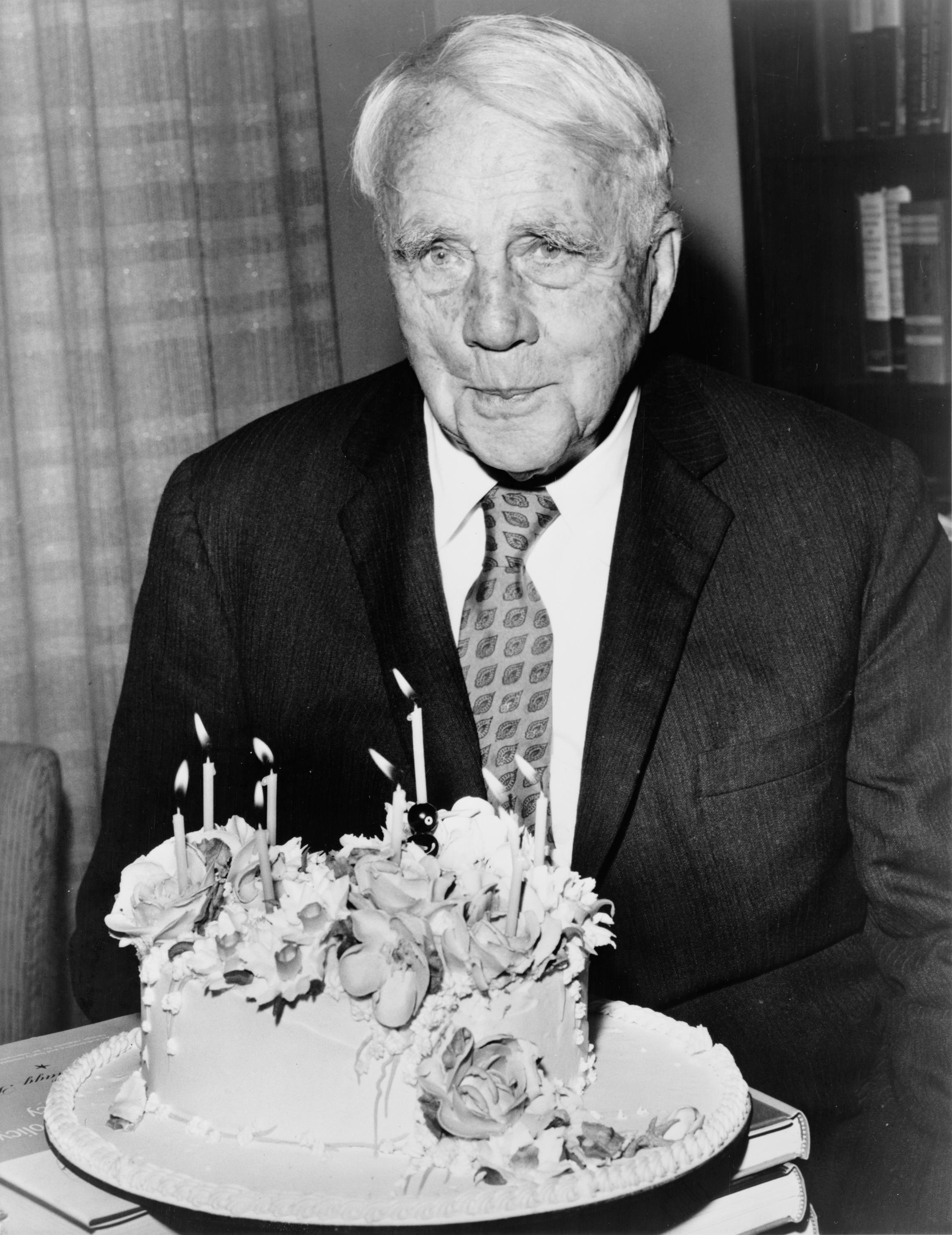 Robert Frost poses with his birthday cake on his 85th birthday. Waldorf-Astoria hotel in New York City.